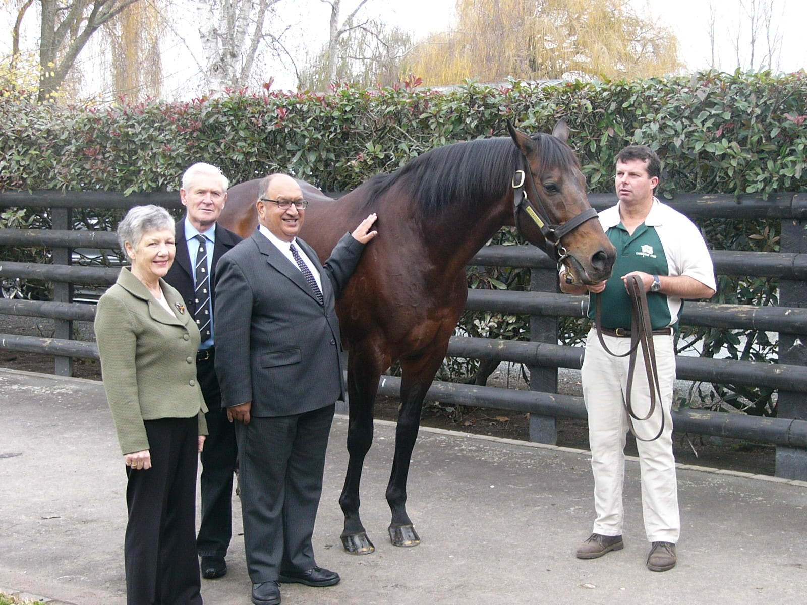 Champion race horse and sire Zabeel, during a vice-regal visit to Cambridge Stud on 13 June 2008. Present are, from left to right, Susan Satyanand, Sir Patrick Hogan, Anand Satyanand, and handler Mark Fox.